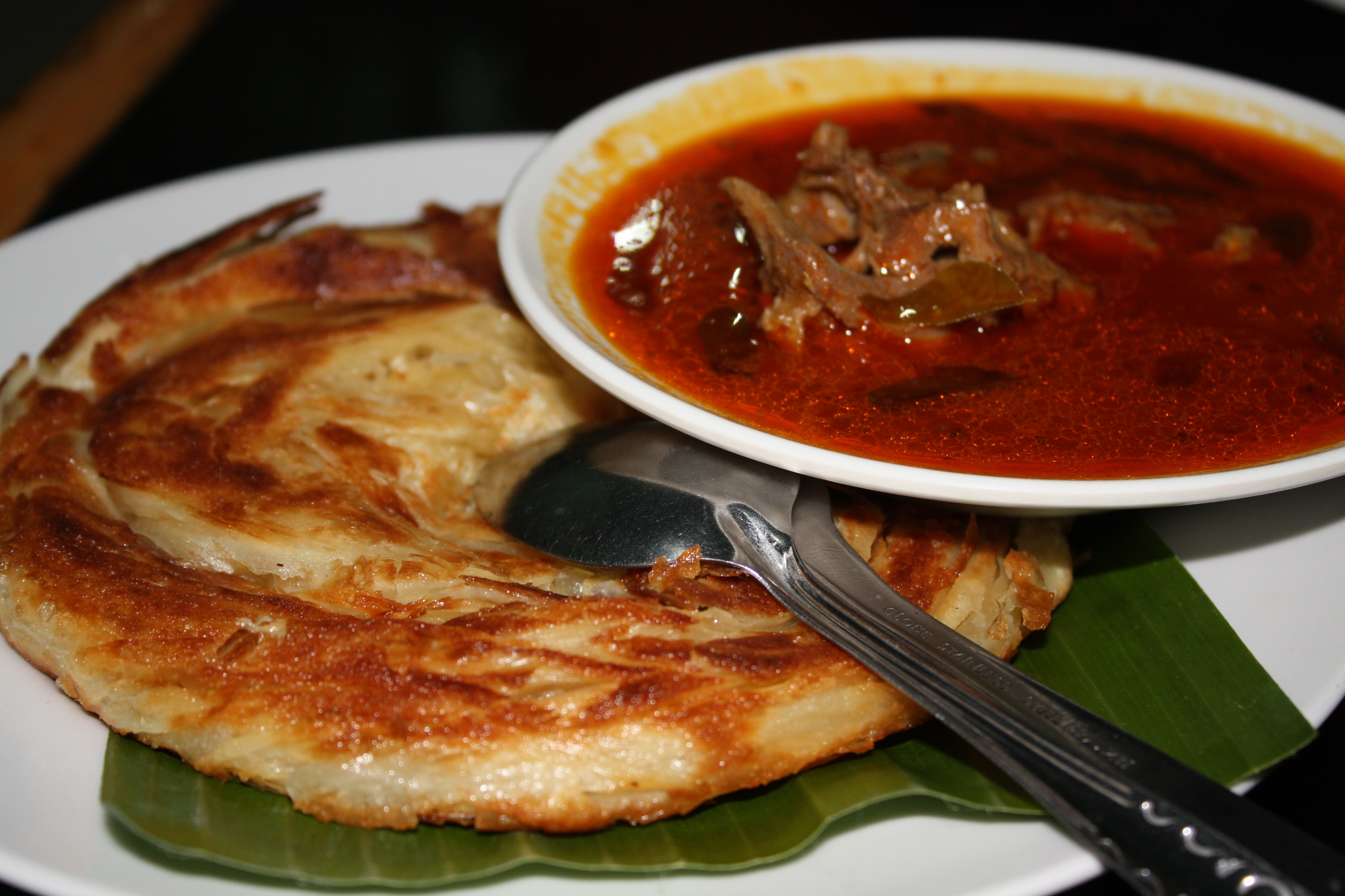 Roti Cane served with Mutton Curry at Martabak Har Palembang.